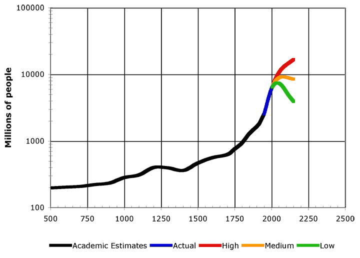 World population from 500 CE to 2150, based on UN 2004 projections and US Census Bureau historical estimates.